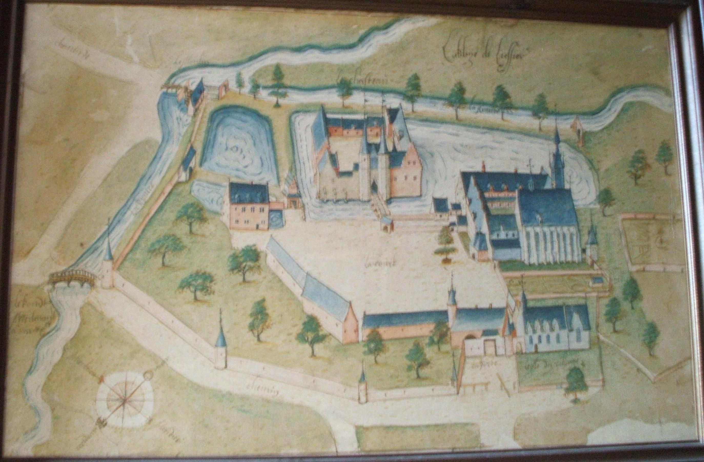 Liessies abbey's map (north france